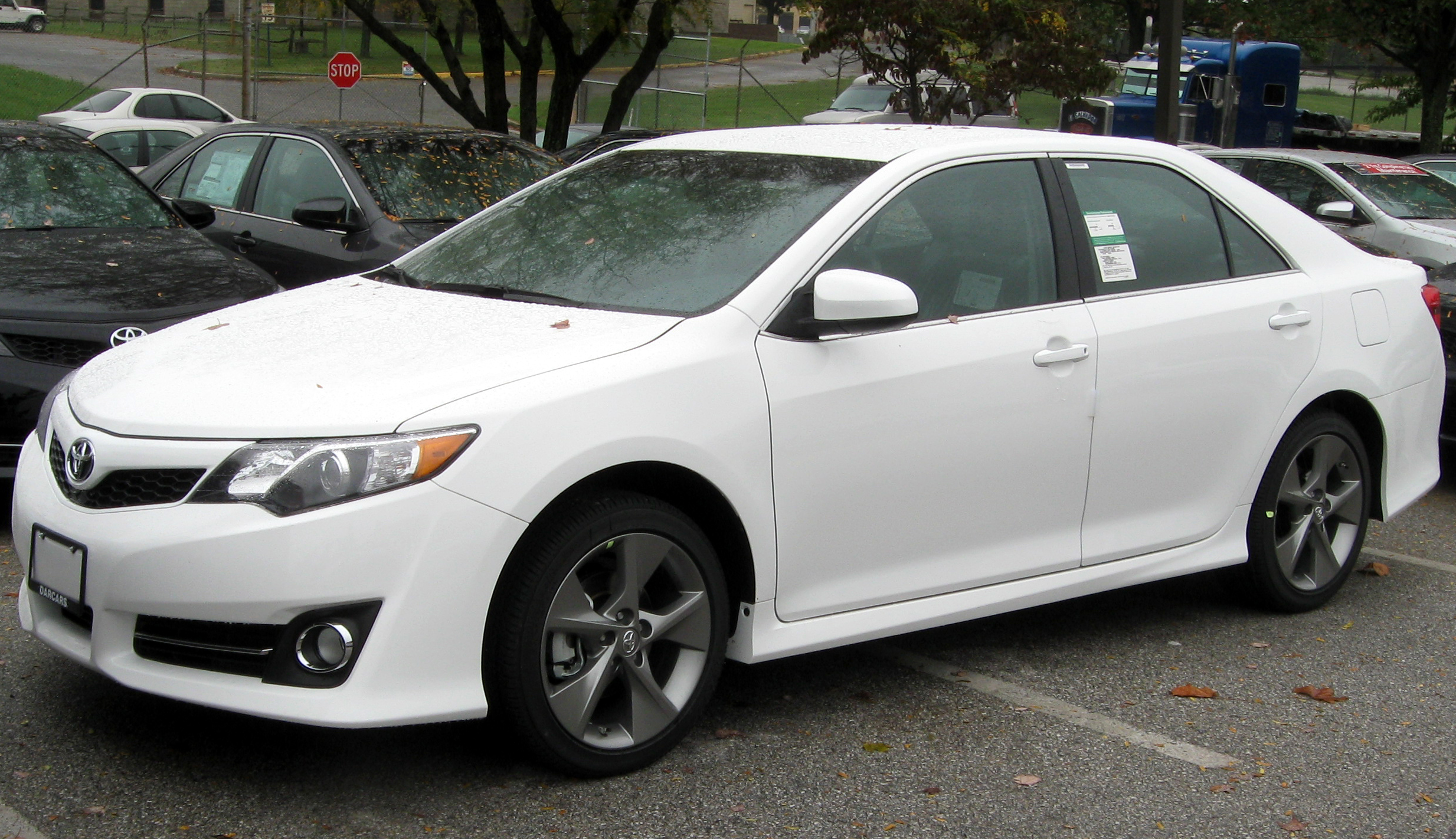 2012 Toyota Camry photographed in Silver Spring, Maryland, USA.